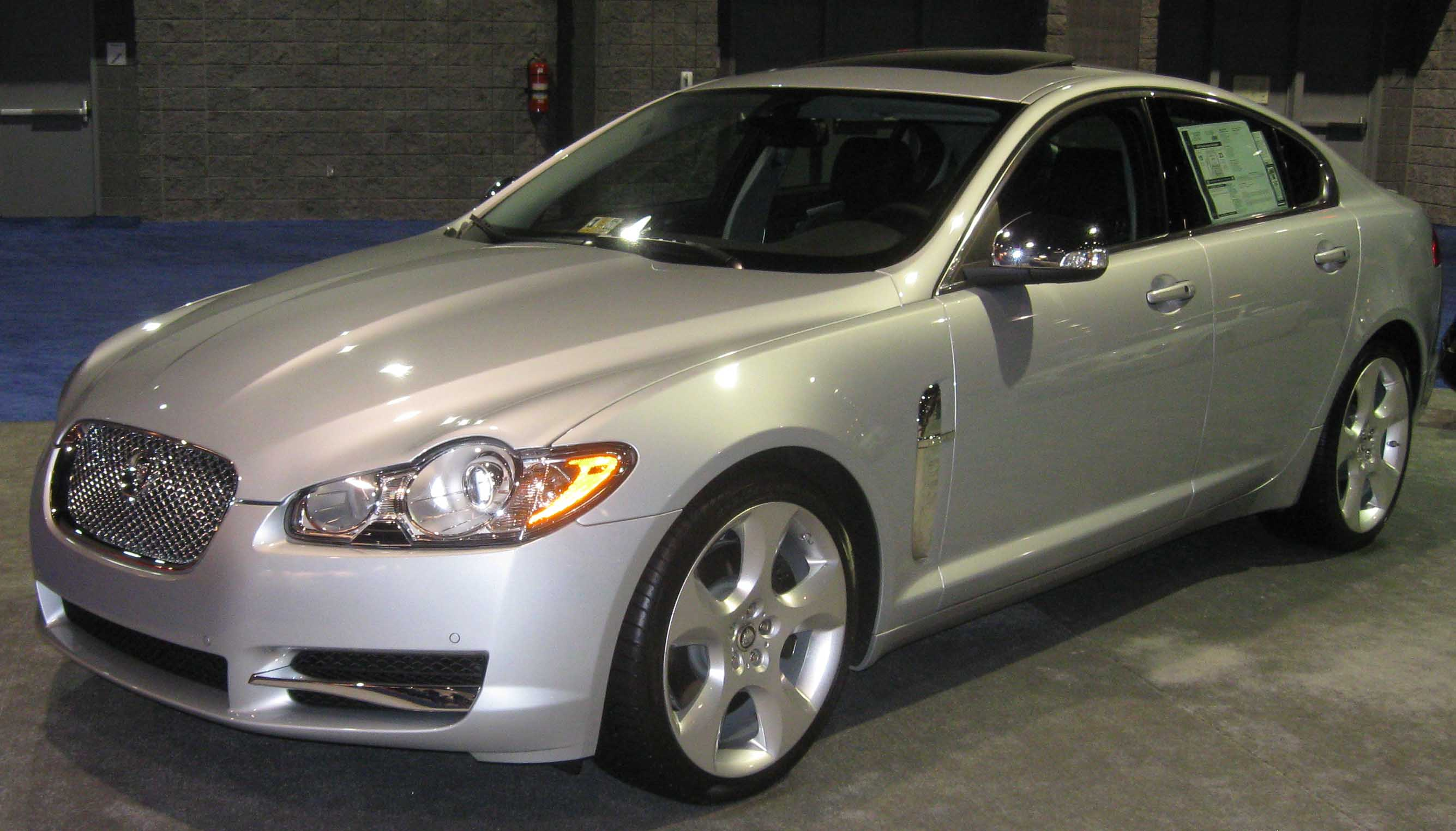 2009 Jaguar XF photographed at the 2009 Washington DC Auto Show.